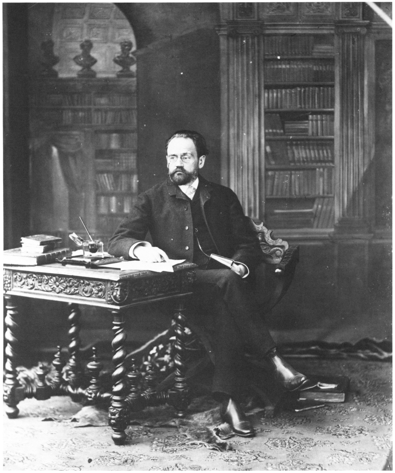 Photo of Émile Zola (1840-1902)